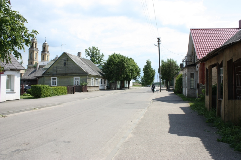 Trakai street in Vievis, Elektrėnai municipality, Lithuania